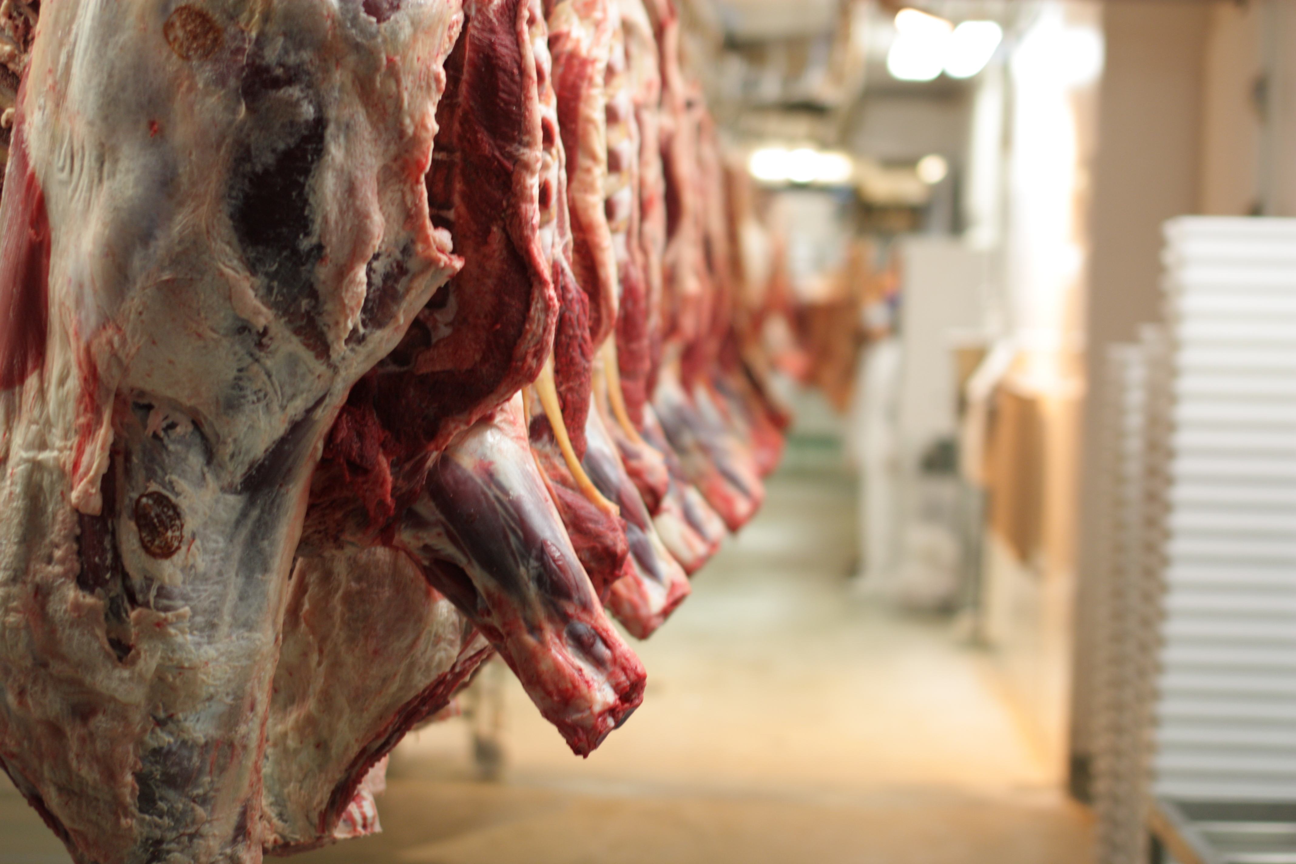 A row of hanging slaughtsNorsk bokmål: Slakt ved et norsk slakteri.